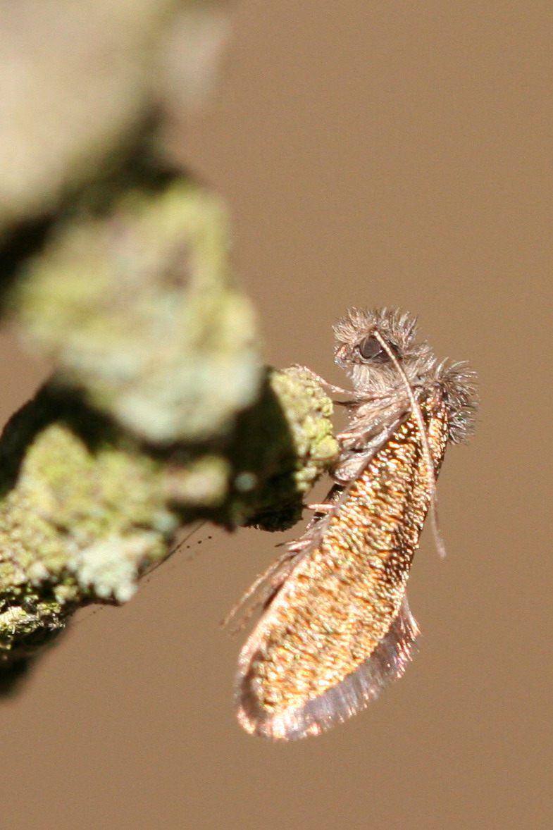 Dyseriocrania subpurpurella 14 april 2007 IJmuiden, the Netherlands